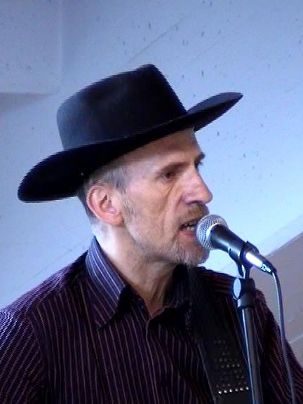 Ari G performing Irwin Goodman's music at Kaustinen's Harness racing course 17.5.2008.